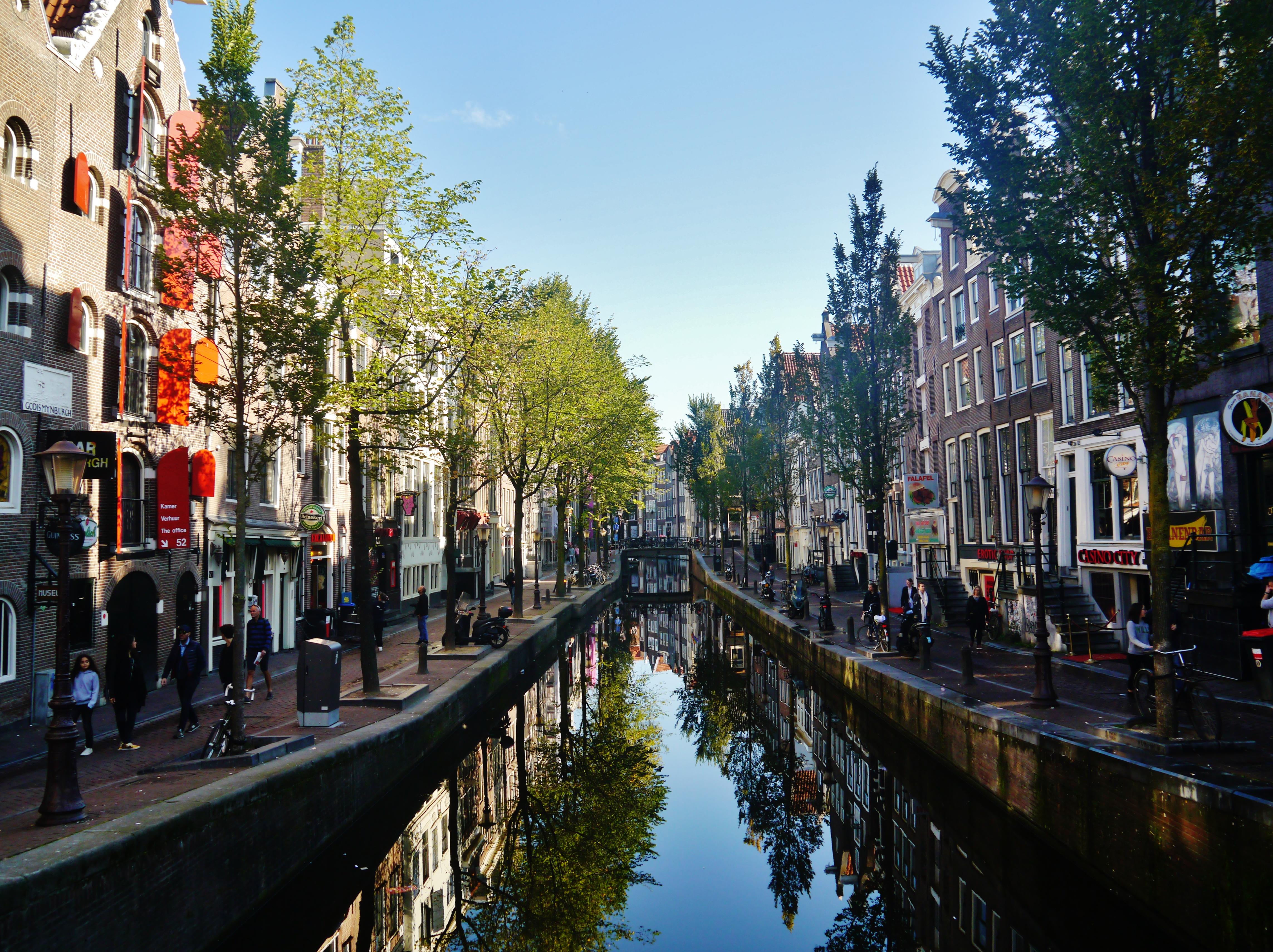 De Wallen, Amsterdam, Province of North Holland, Netherlands